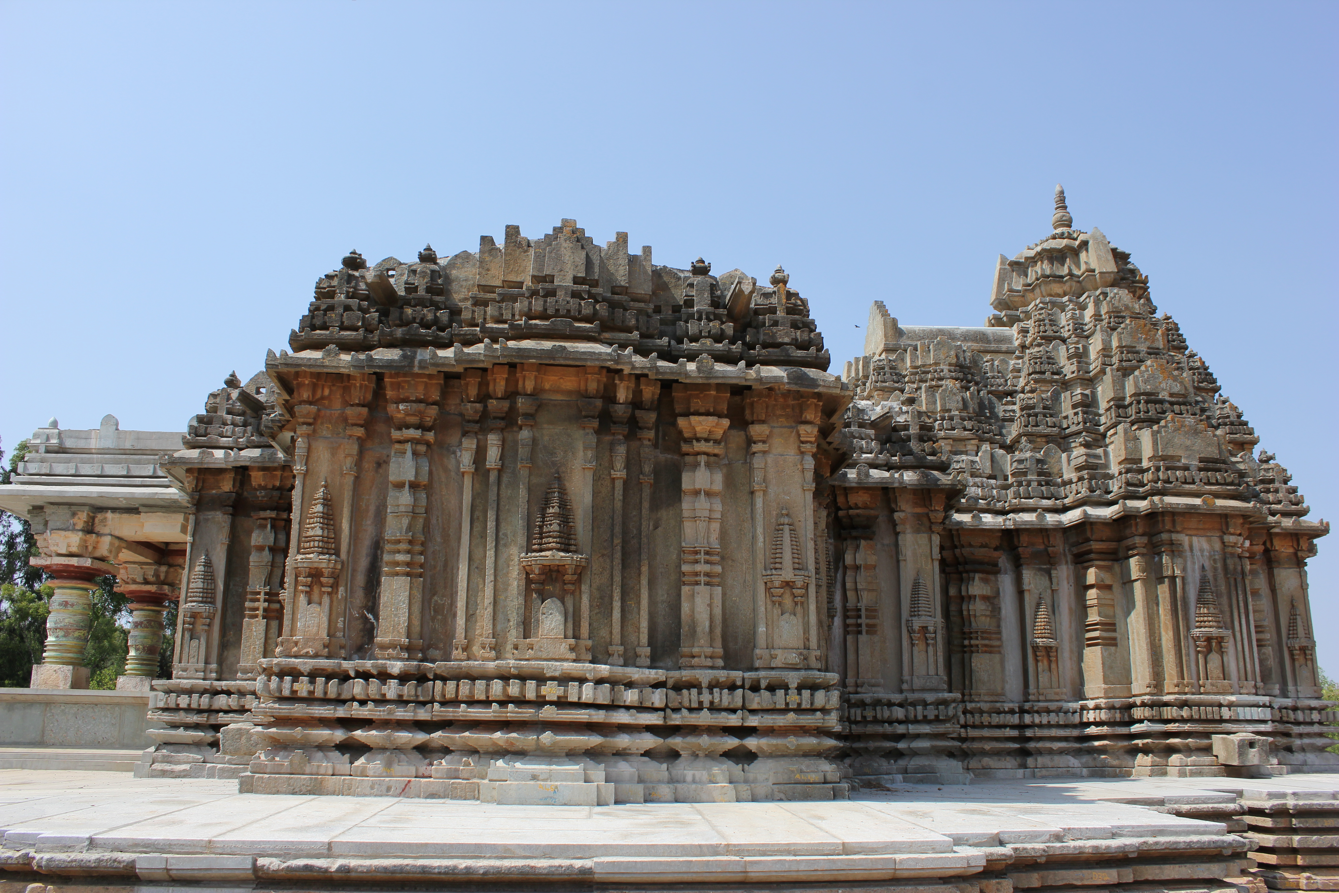 This photograph was taken by me (Dinesh Kannambadi) in the Yoga Madhava temple at Settikere, Tumkur district, Karnataka state, India. The temple was built in 1261 AD during the rule of the Hoysala Empire King Narasimha III.